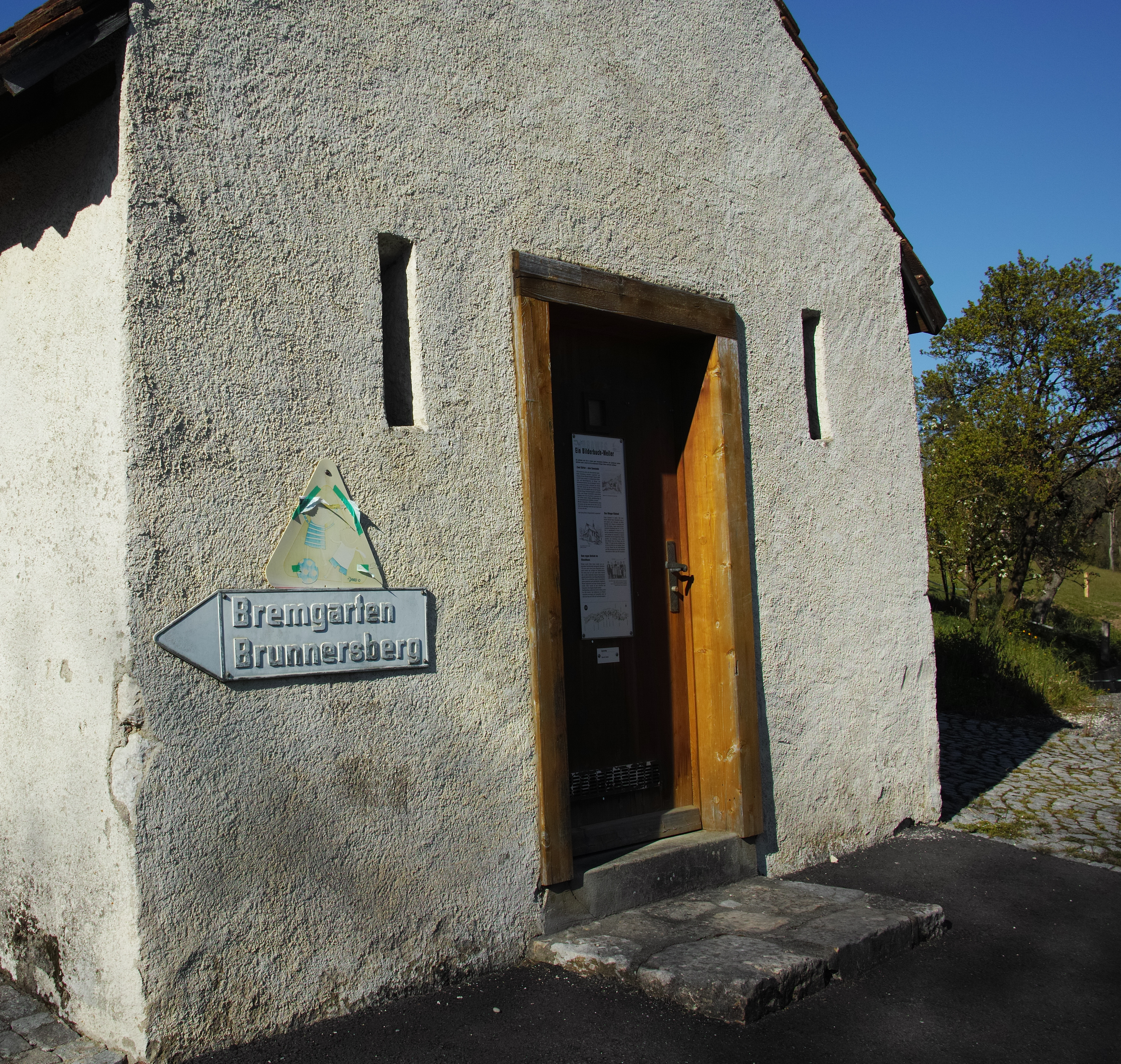 Hamlet of Höngen in the municipality of Laupersdorf, canton of Solothurn, Switzerland: Wash house (laundry building, "Waschhaus").